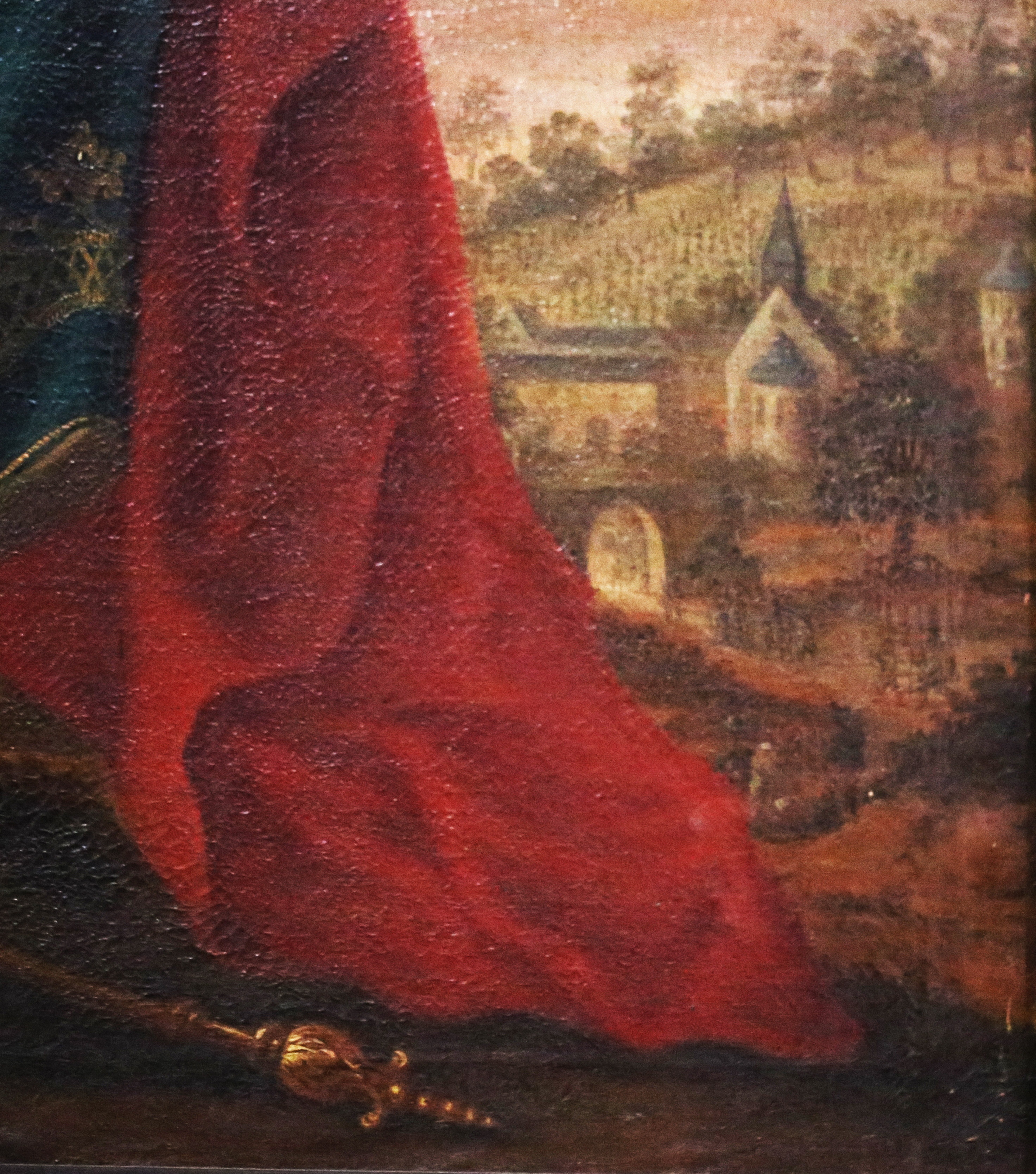 Detail of a oilpainting in the Catholic Parish Church Saintt Walburga in Walberberg (Bornheim), North Rhine-Westphalia, Germany